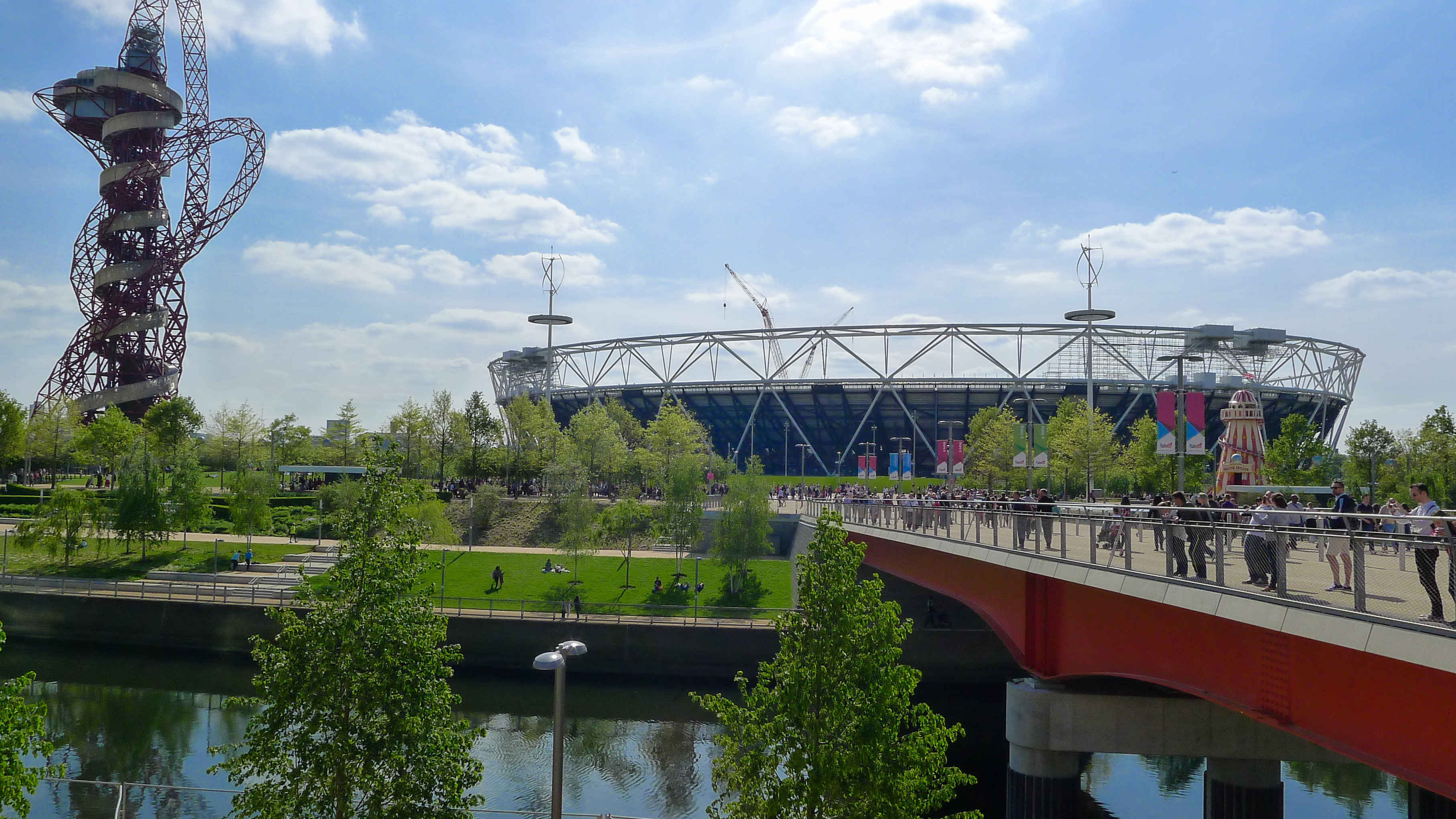 The stadium without its floodlights during renovation works